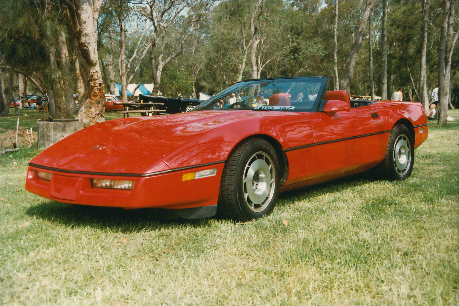 This image is a scan of a 35 mm print taken at an American Car Show, Narrabeen Lake NSW in 1997